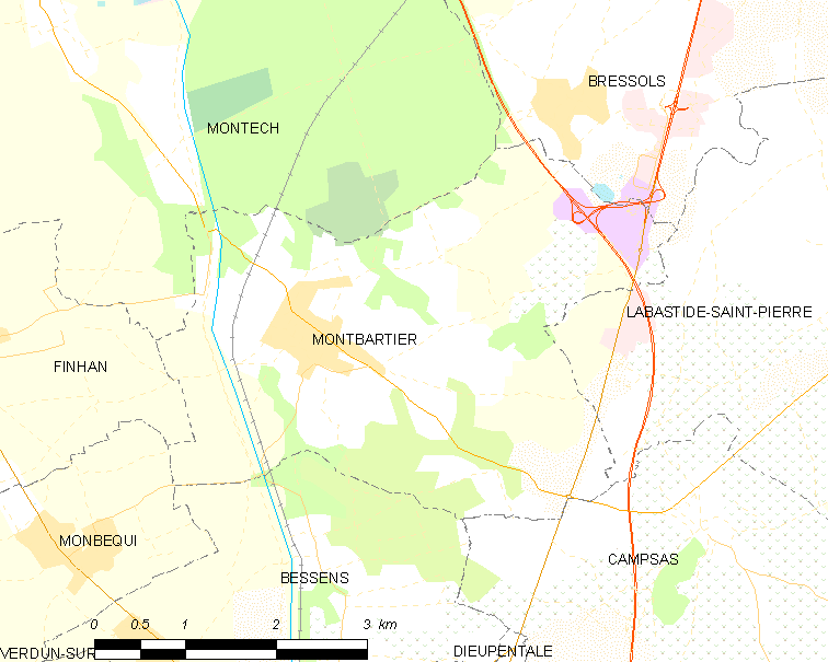 Map of French municipality Montbartier